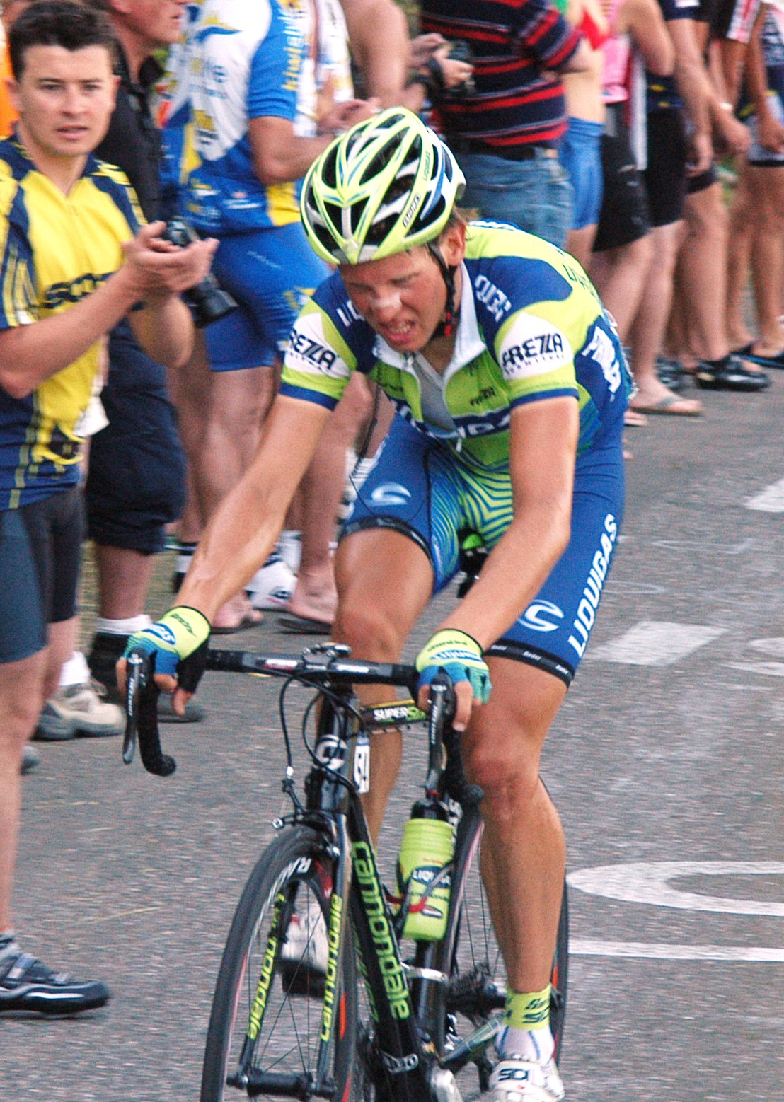 Kjell Carlström at stage 7 of the Tour de France 2007 on the Col de la Colombière.